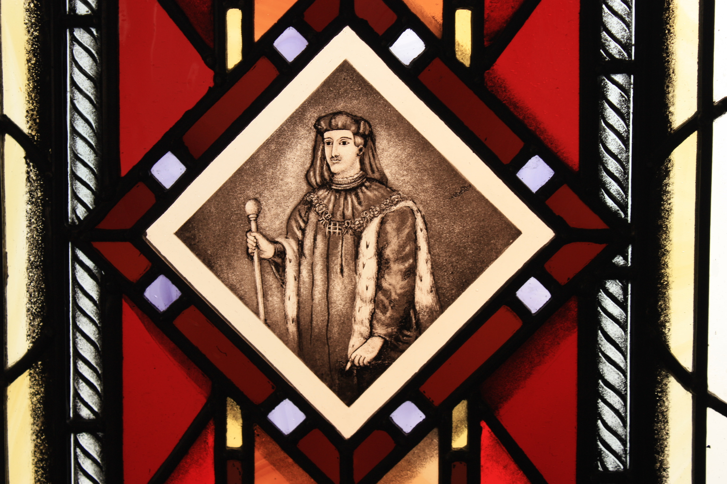 Stained glass illustrating Henry Fitz-Ailwin, Guildhall. London by Patricia Clifford, 1999 The mansion house Window (one of four.